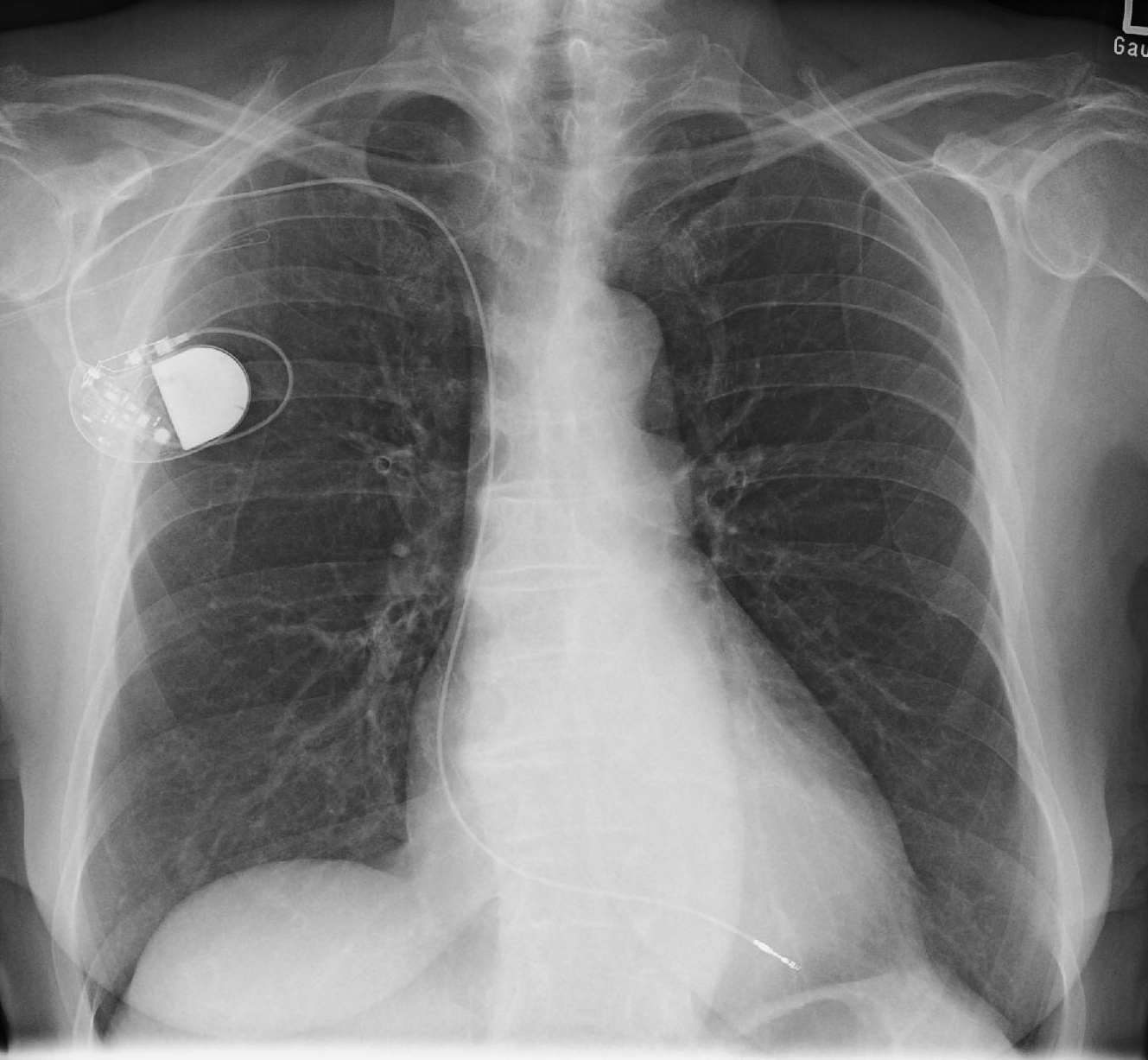 Conventional radiography of a single-chamber pacemaker (VVI)